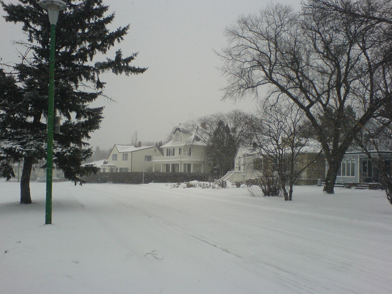 Saskatoon, Saskatchewan Crescent East